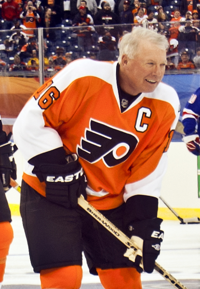 Hockey Hall of Fame center Bob Clarke of the Philadelphia Flyers on the ice at Citizens Bank Park during the warmup for the 2012 NHL Winter Classic Alumni Game against the New York Rangers alumni. December 31, 2011.